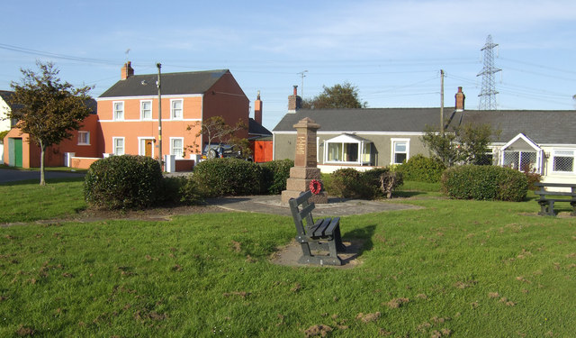 Hundleton village green A pleasant place to sit and contemplate this corner of Wales.